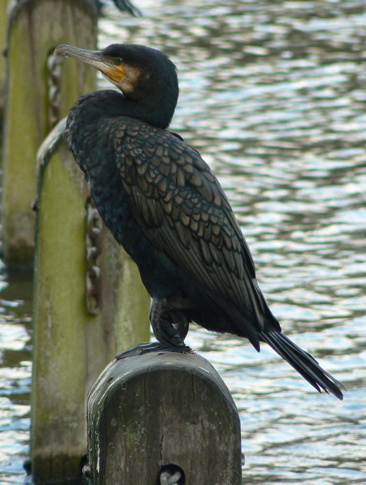 Great Cormorant (Phalacrocorax carbo) perching on a post in the Long Water, the Serpentine, London, England.